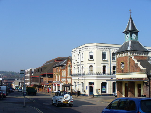 North Street, Guildford This ancient street runs parallel to the High Street. It is wide because it used to hold livestock markets. Today it still houses weekly markets, mostly for flowers, fruit and vegetables. The prominent white building is Guildford Institute. The building with the clock tower was a fire station but today houses public conveniences.